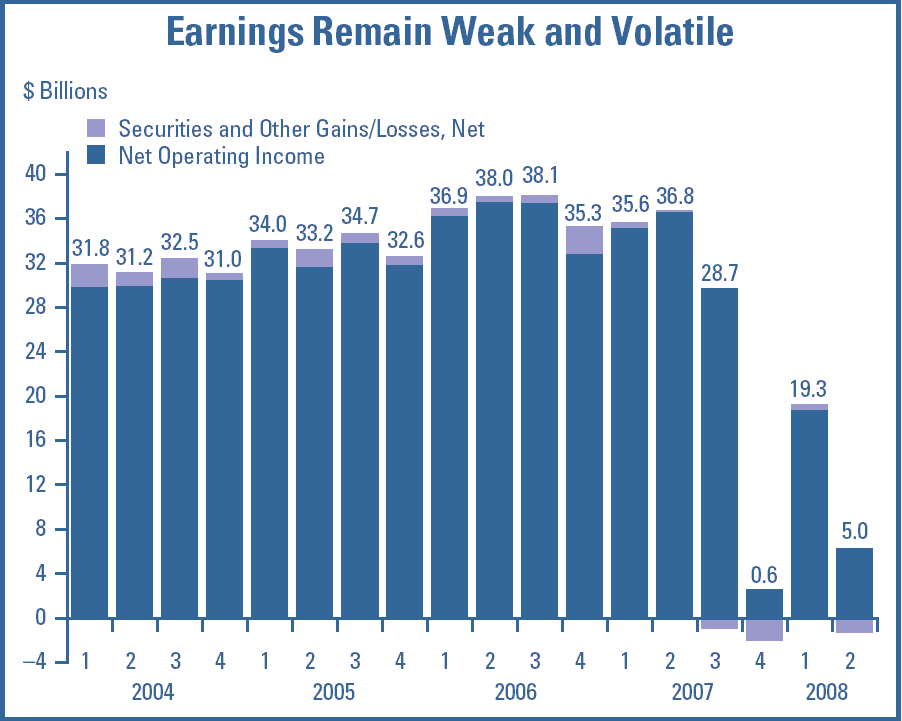 U.S. FDIC banking profits - Q2 2008